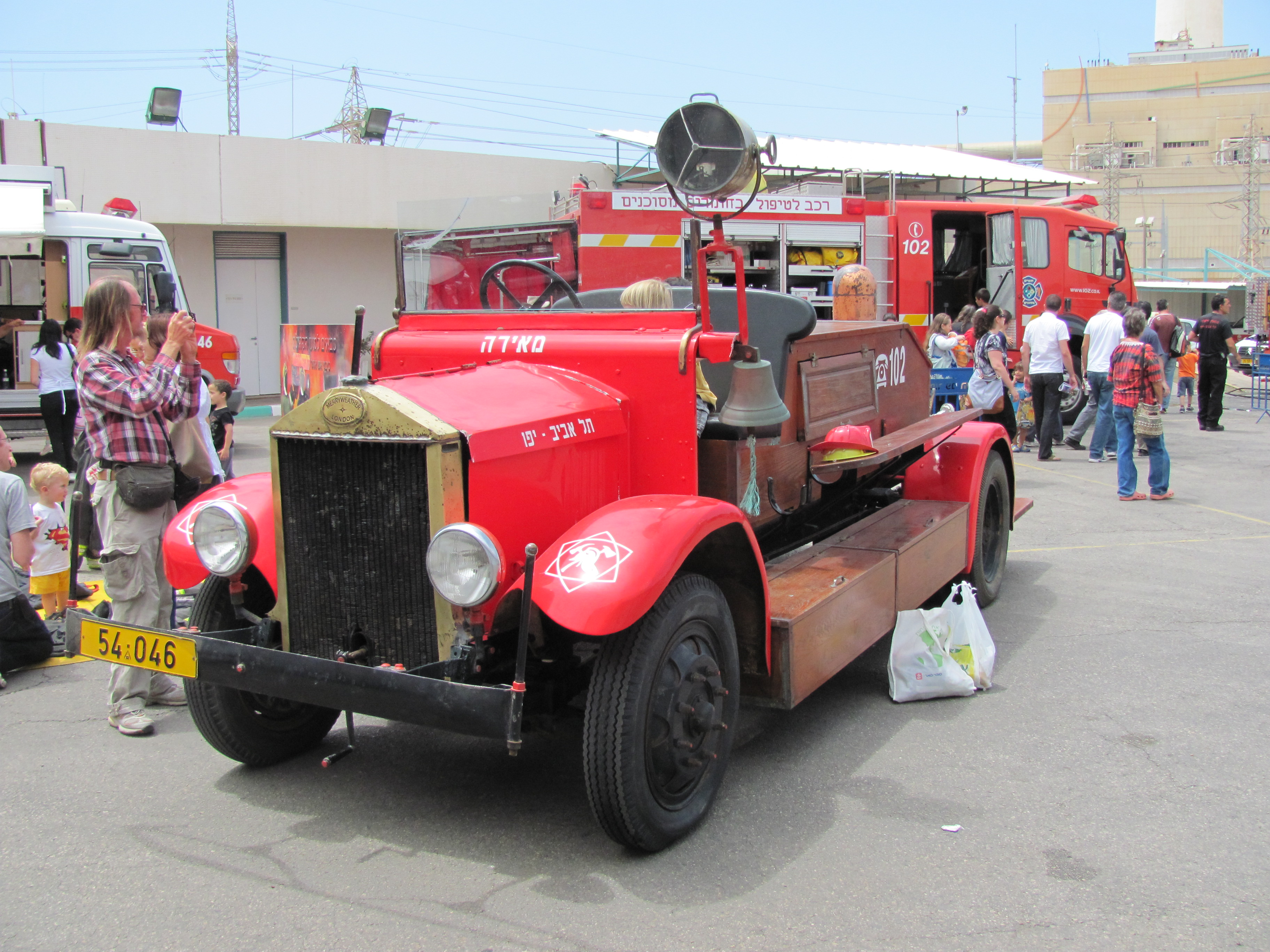 An historic Merryweather fire engine used by the Tel Aviv fire department in the 30's.